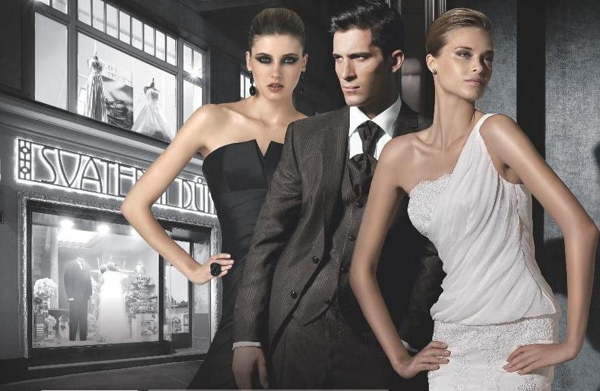 Wedding house in Prague